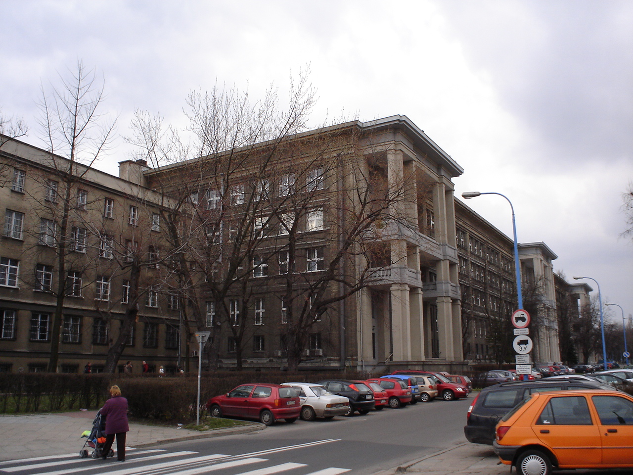 L. Pasteur Street in Warsaw. Building on the Faculty of Mathematics, Informatics and Mechanics UW.